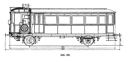 Petrol-electric railcar of ACsEV (Arad & Csanád United Railways), built 1903/1906 ff. by Johann Weitzer AG in Arad with an internaml combustion engine from De Dion-Bouton and electric equipment from Siemens-Schuckert